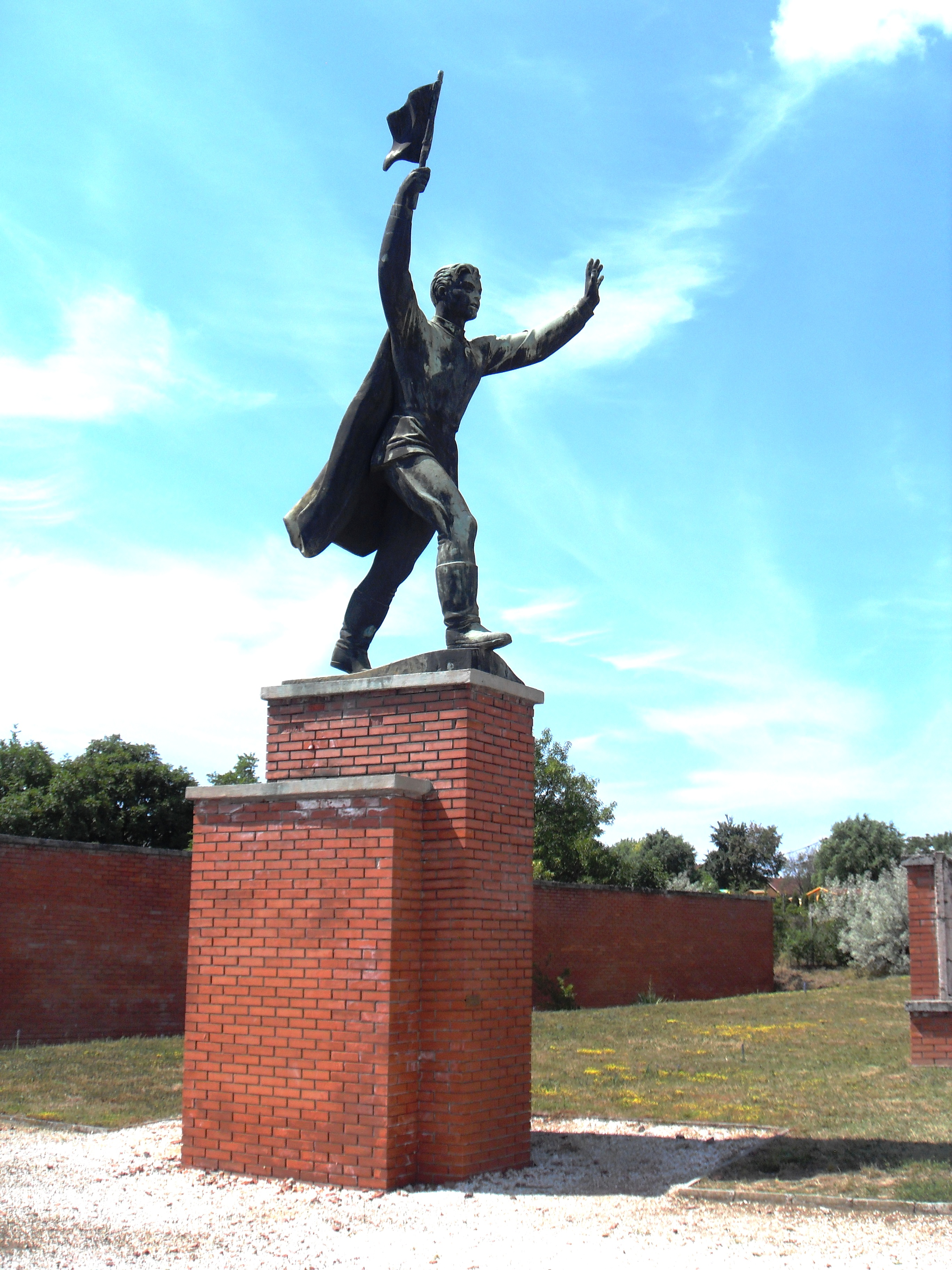 Captain Steinmetz statue in the Memento Park. Author: Mikus Sándor. Year: 1958.